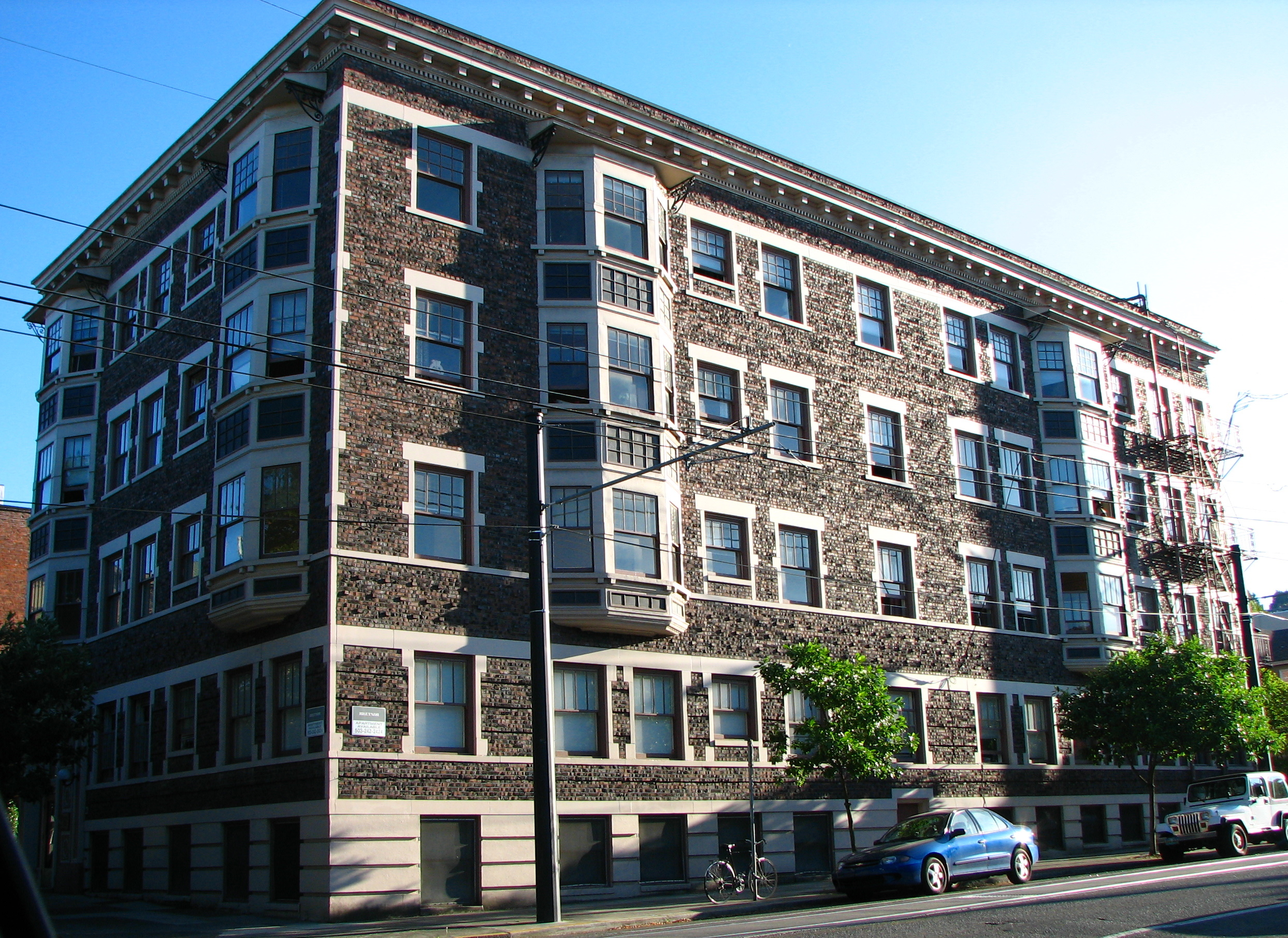 The historic Bretnor Apartments (built 1912), located at 931 Northwest 20th Avenue in Portland, Oregon, United States, is listed on the US National Register of Historic Places.